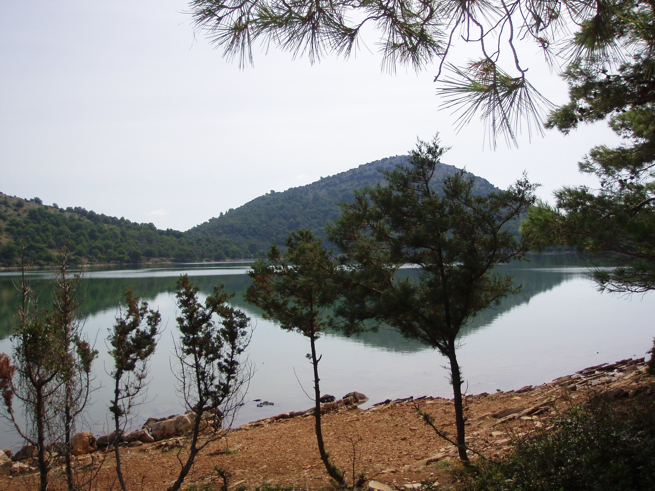 The salt lake - Dugi Otok - Croatia